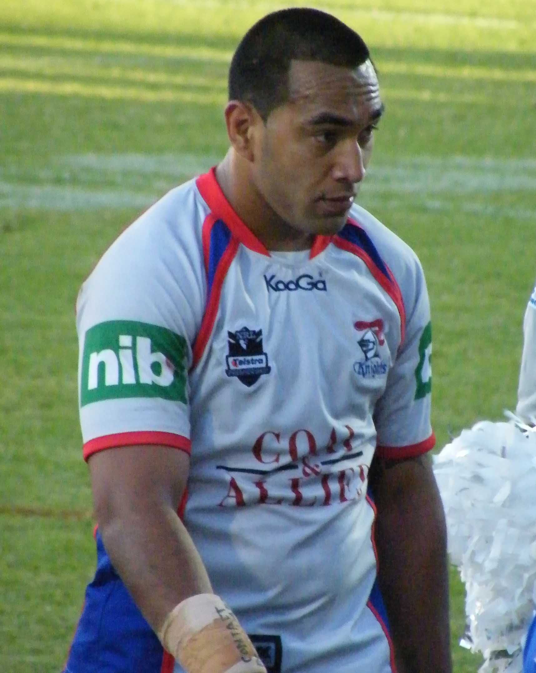 Zeb Taiaa